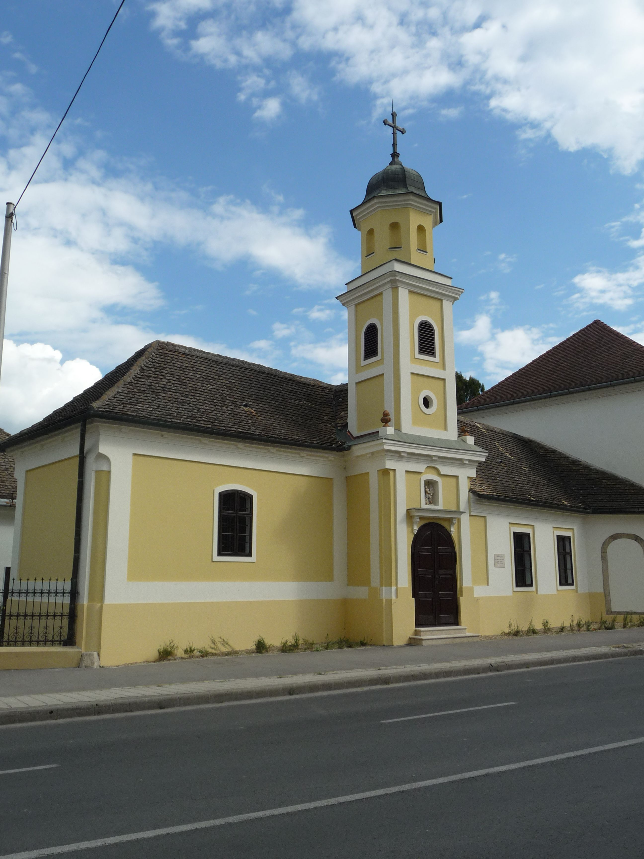 the chapel of Saint John and Saint Paul in Szekszárd, Hungary